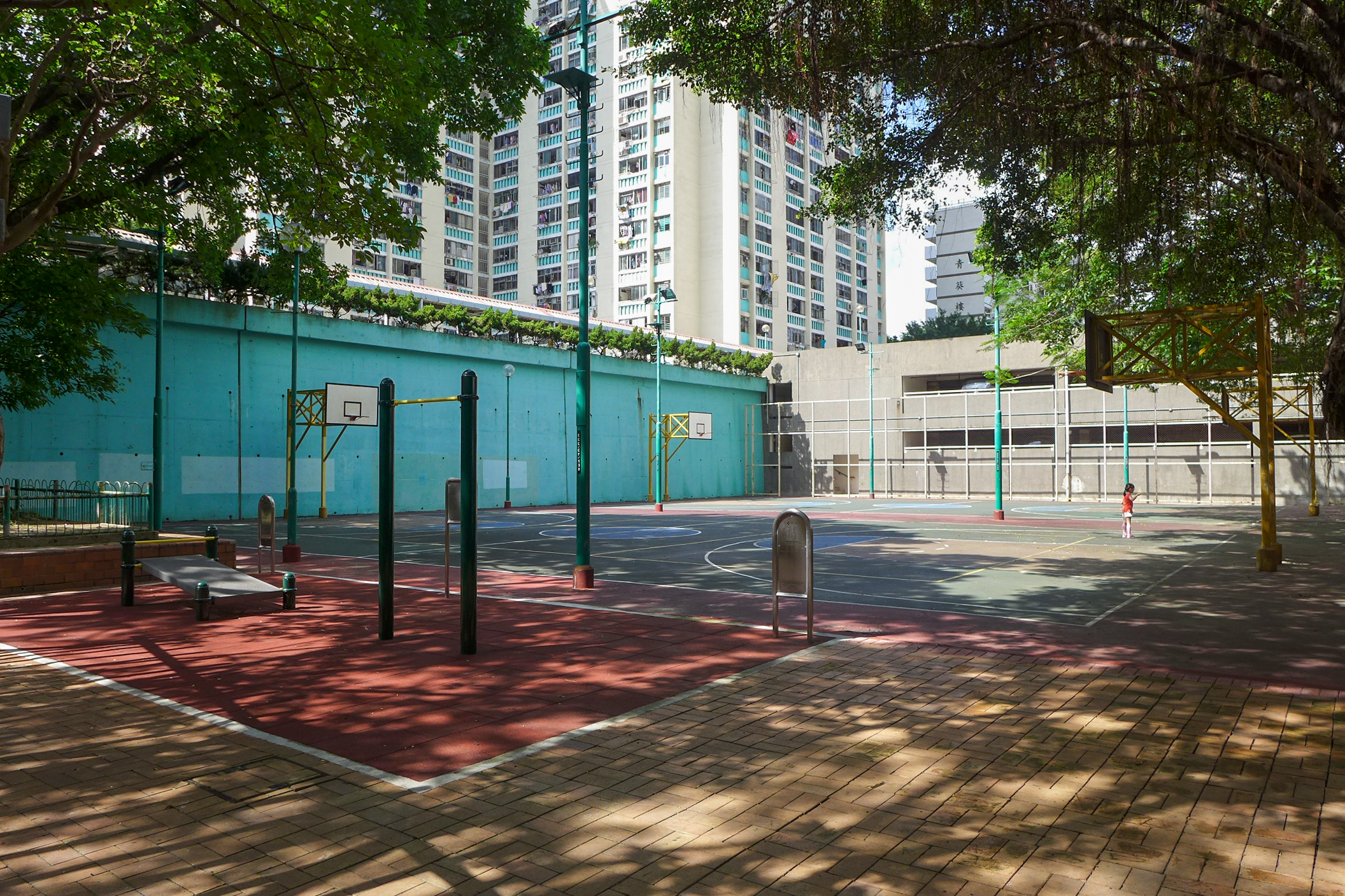 Cheung Ching Estate Fitness Area and Basketball Court